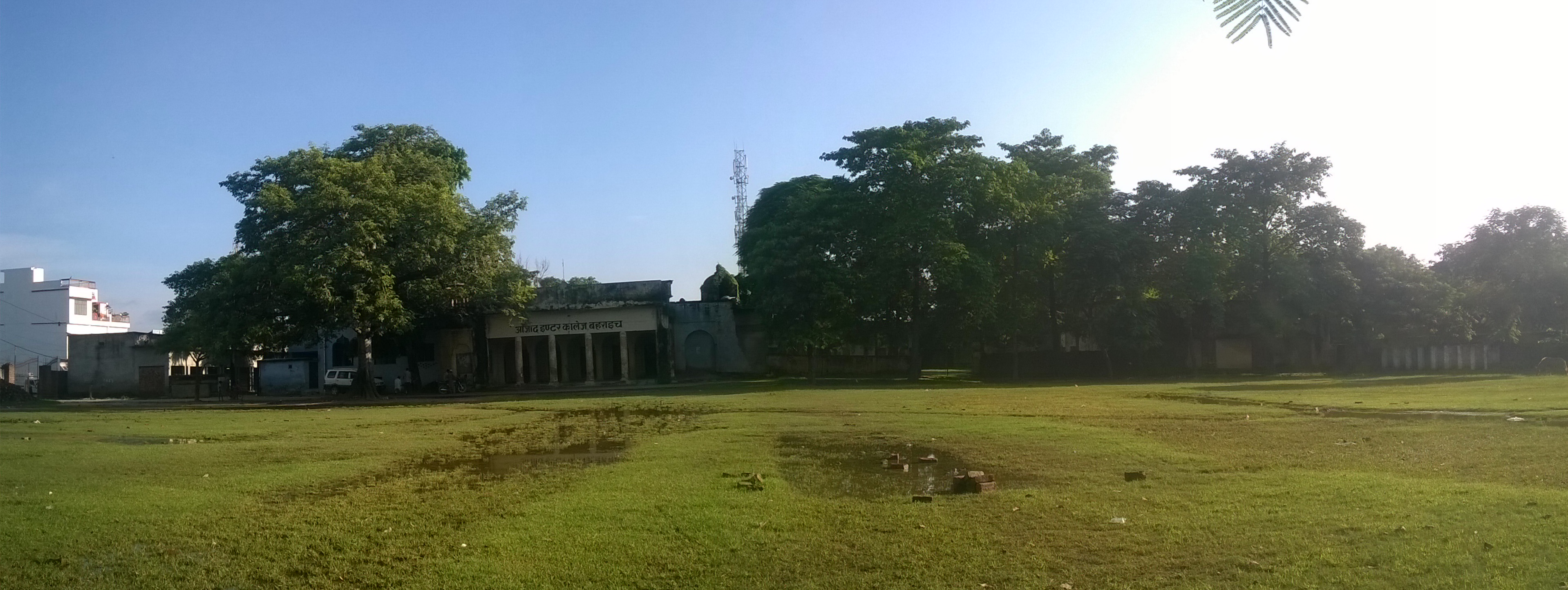 Azad Inter College Bahraich Panoramic View